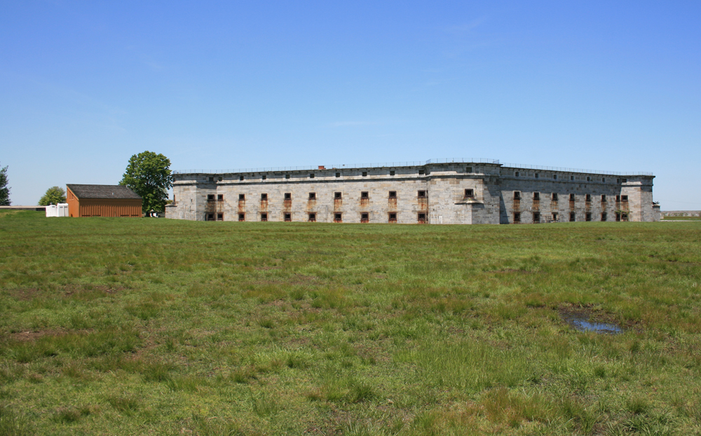 Fronts I and II of Fort Delaware on Pea Patch Island. Photograph by Brendan Mackie.